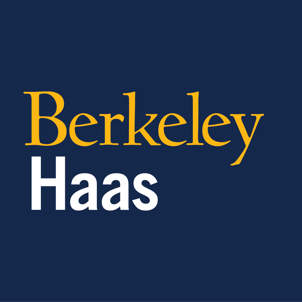 Haas wordmark